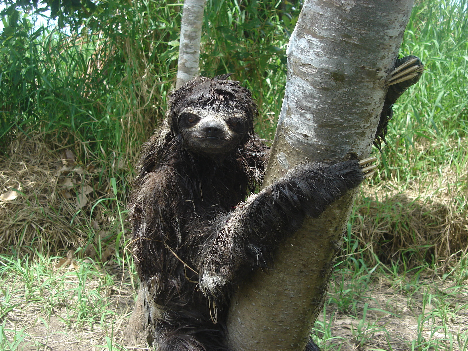 Sloth living in the amazonian rainforest, on the Rio Maranon (Peru)